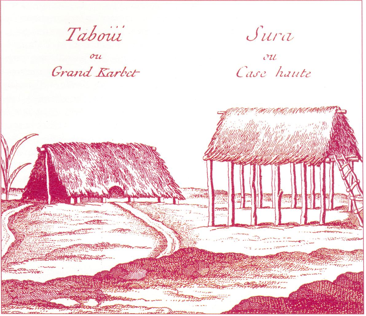 Architecture of the Kali'na Amazonian tribe.